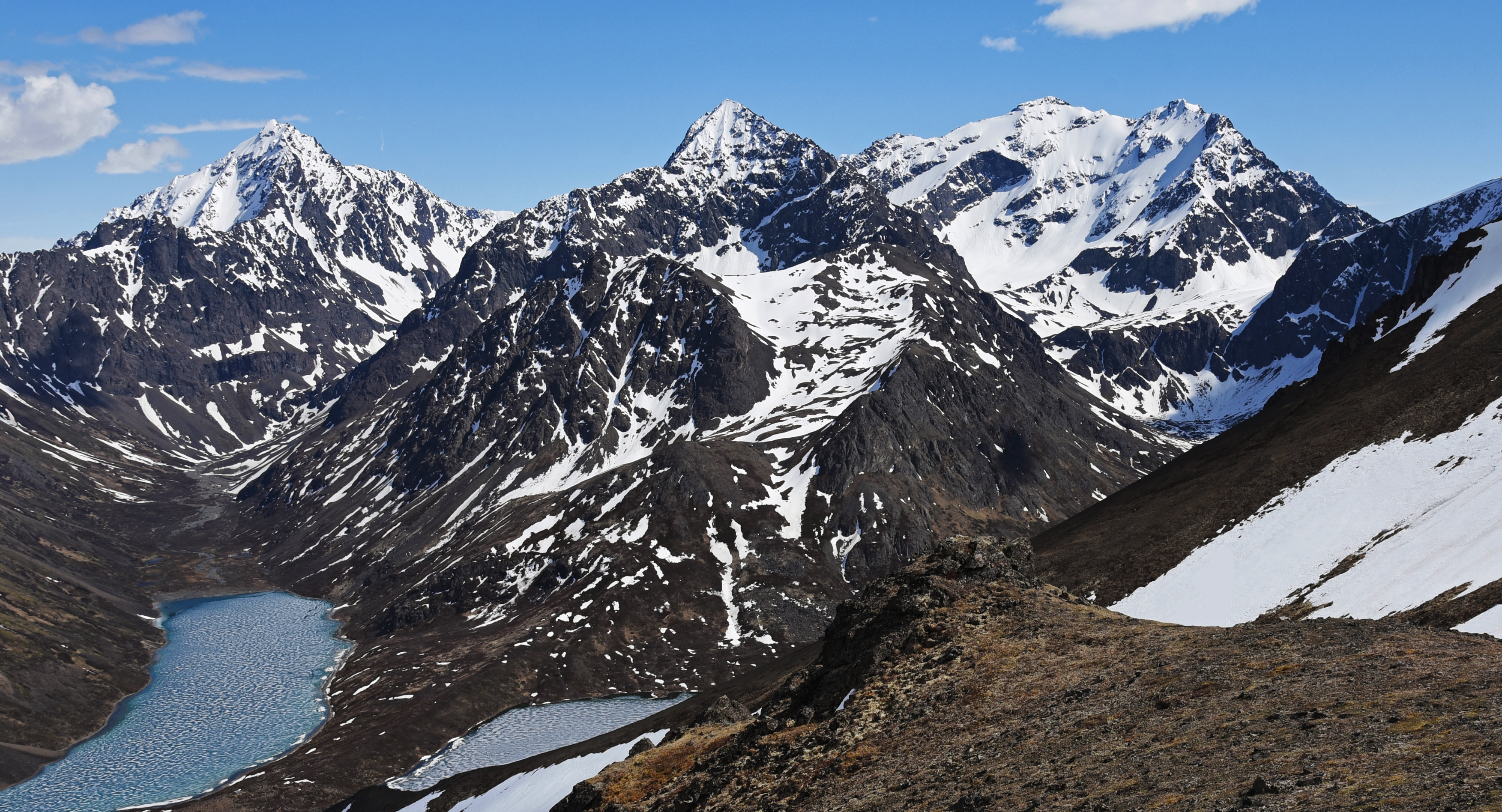 View from Rendezvous Ridge, with Eagle Peak, Cantata Peak, and Calliope Peak in the background. Chugach State Park, Alaska